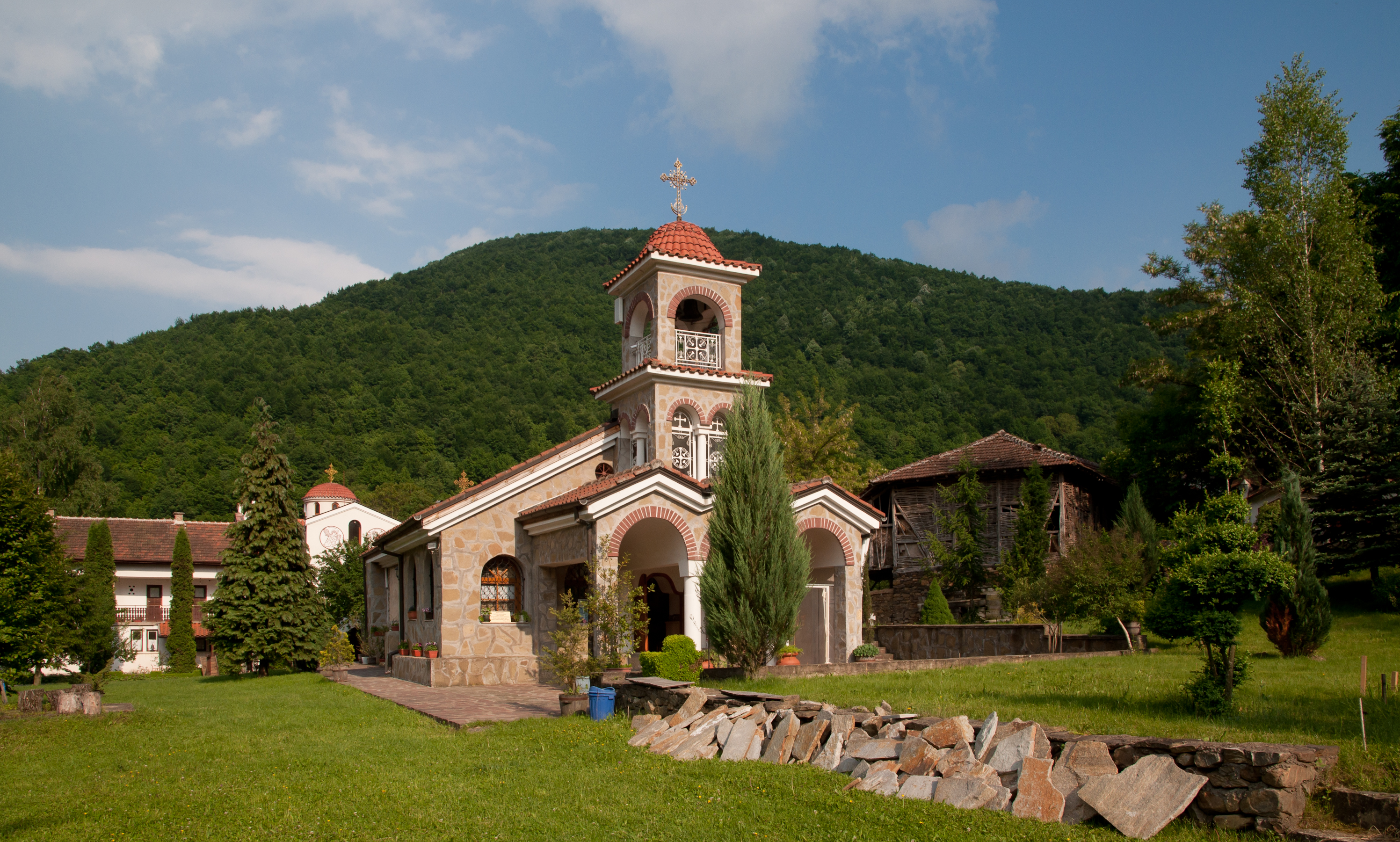 The main church of the Holy Forty Martyrs monastery (nunnery) mostly known as Vrachesh monastery, located nearby Vrachesh village, Bulgaria.